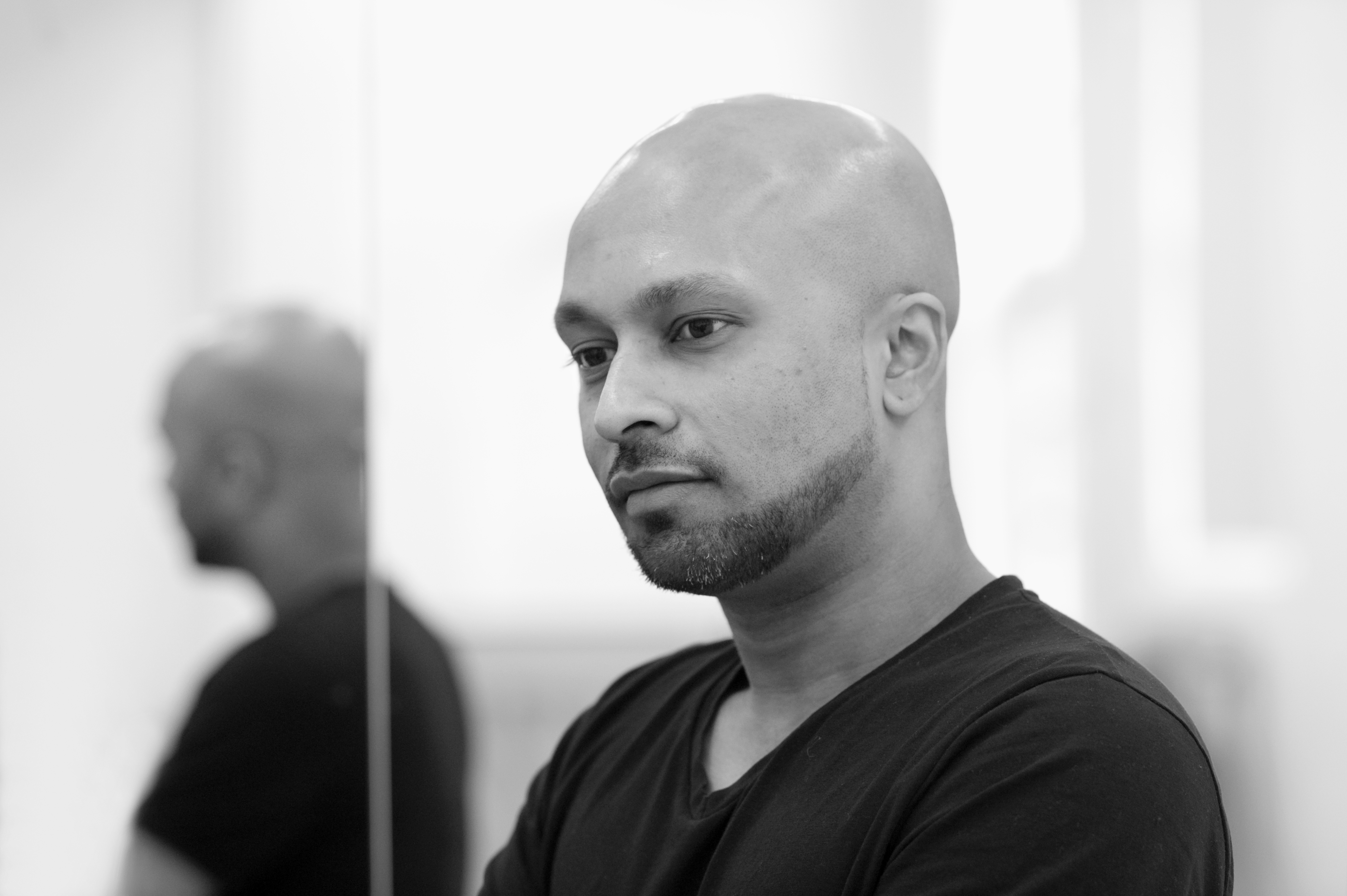 Akram Khan at Jerwood Space in London, England in April 2010.